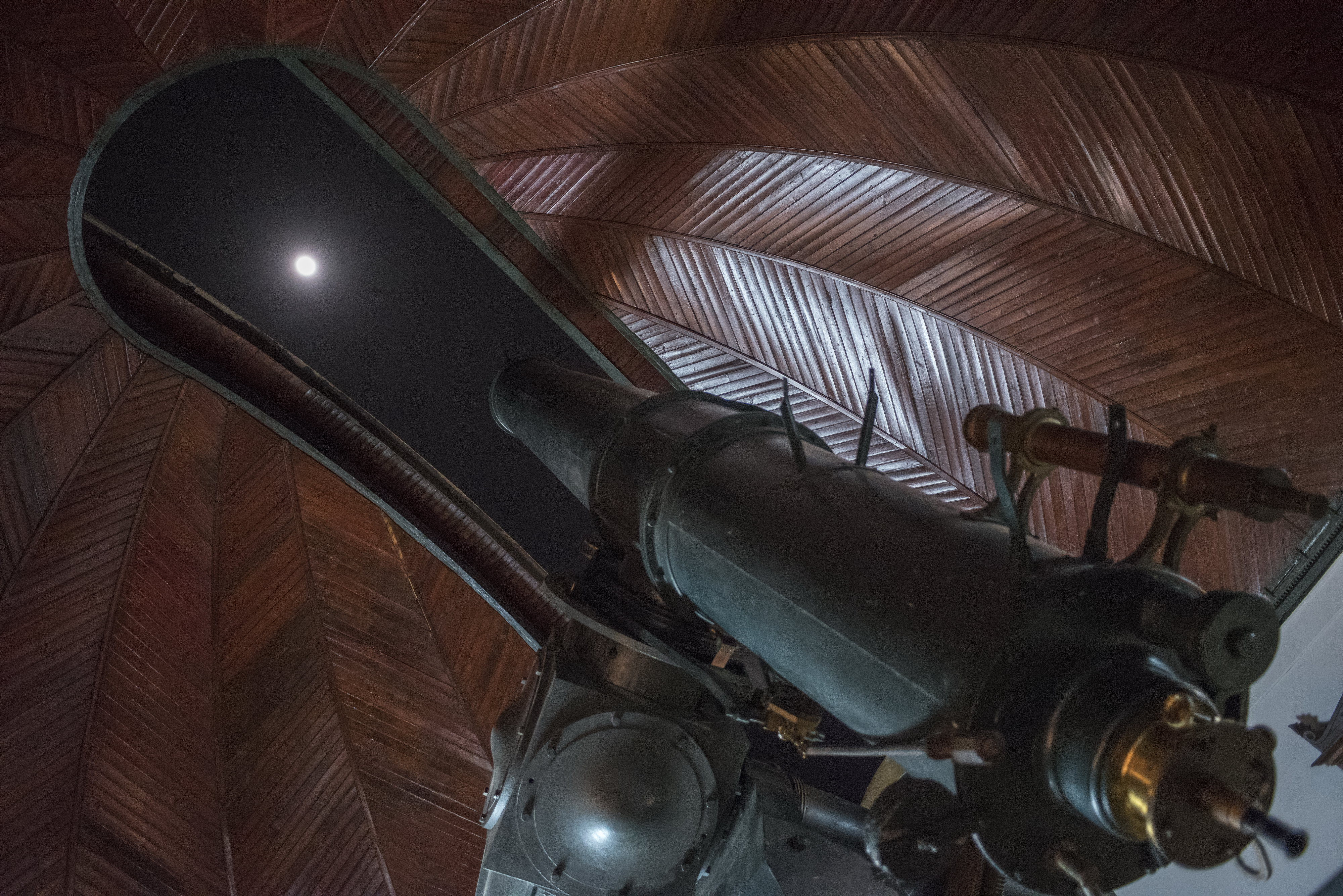 Doridis telescope, Nationa Observatory of Athens, Greece.